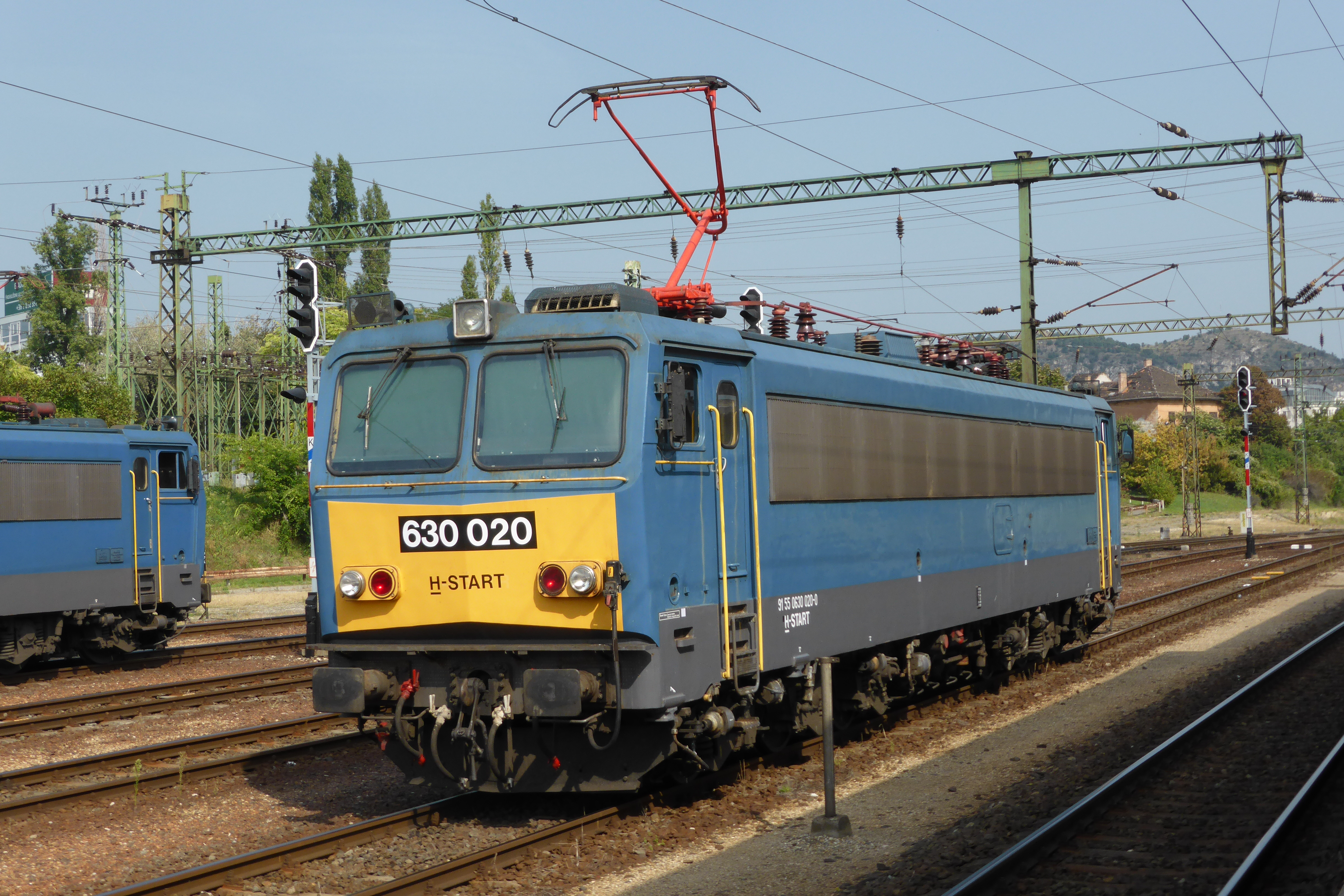 MÁV 630 020 "Gigant" at Kelenföld station, on 11 September 2016